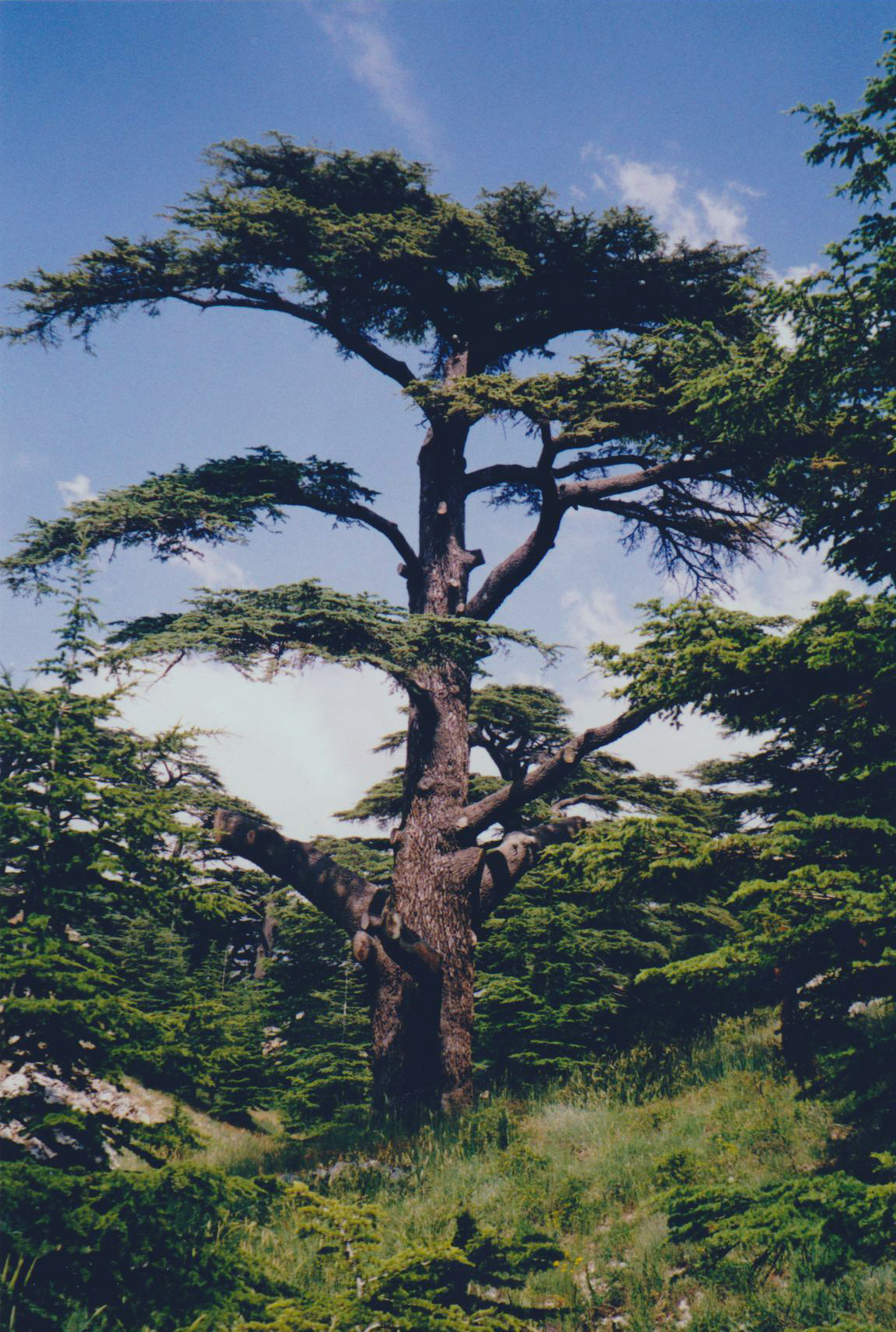 Cedrus libani var. libani — Lebanon Cedar; mature tree; in the Cedars of God nature preserve on Mount Lebanon, Lebanon.